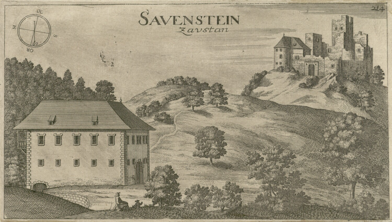 Boštanj Castle and Mansion